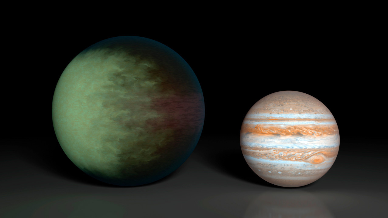 Using NASA's orbiting space telescopes, researchers say that for the first time they've been able to make a rudimentary map of the atmosphere of an extrasolar planet. Kepler 7B compared to Jupiter.